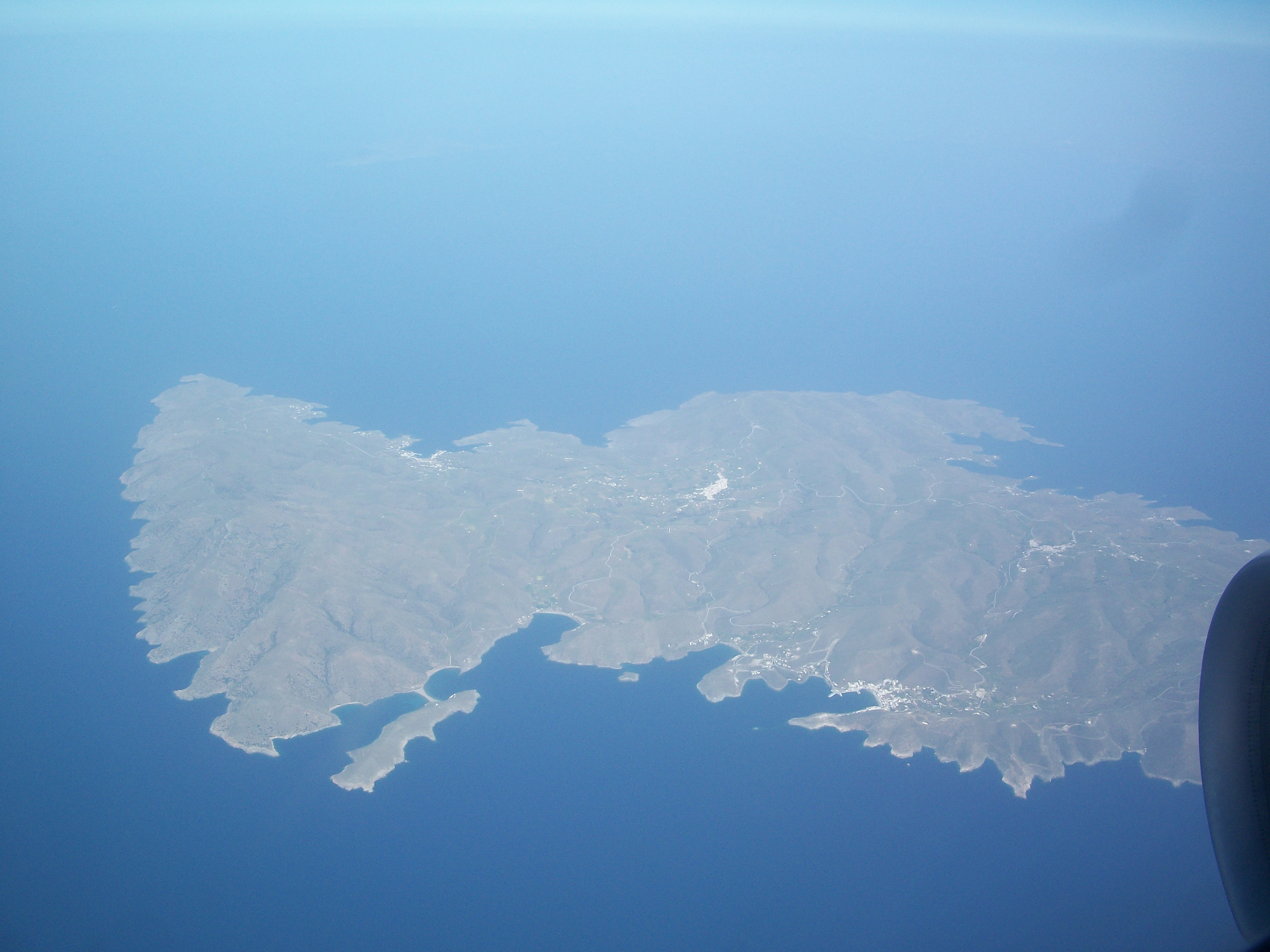 Airview of north Kythnos, Greece. The atmosphere that day was quite dusty